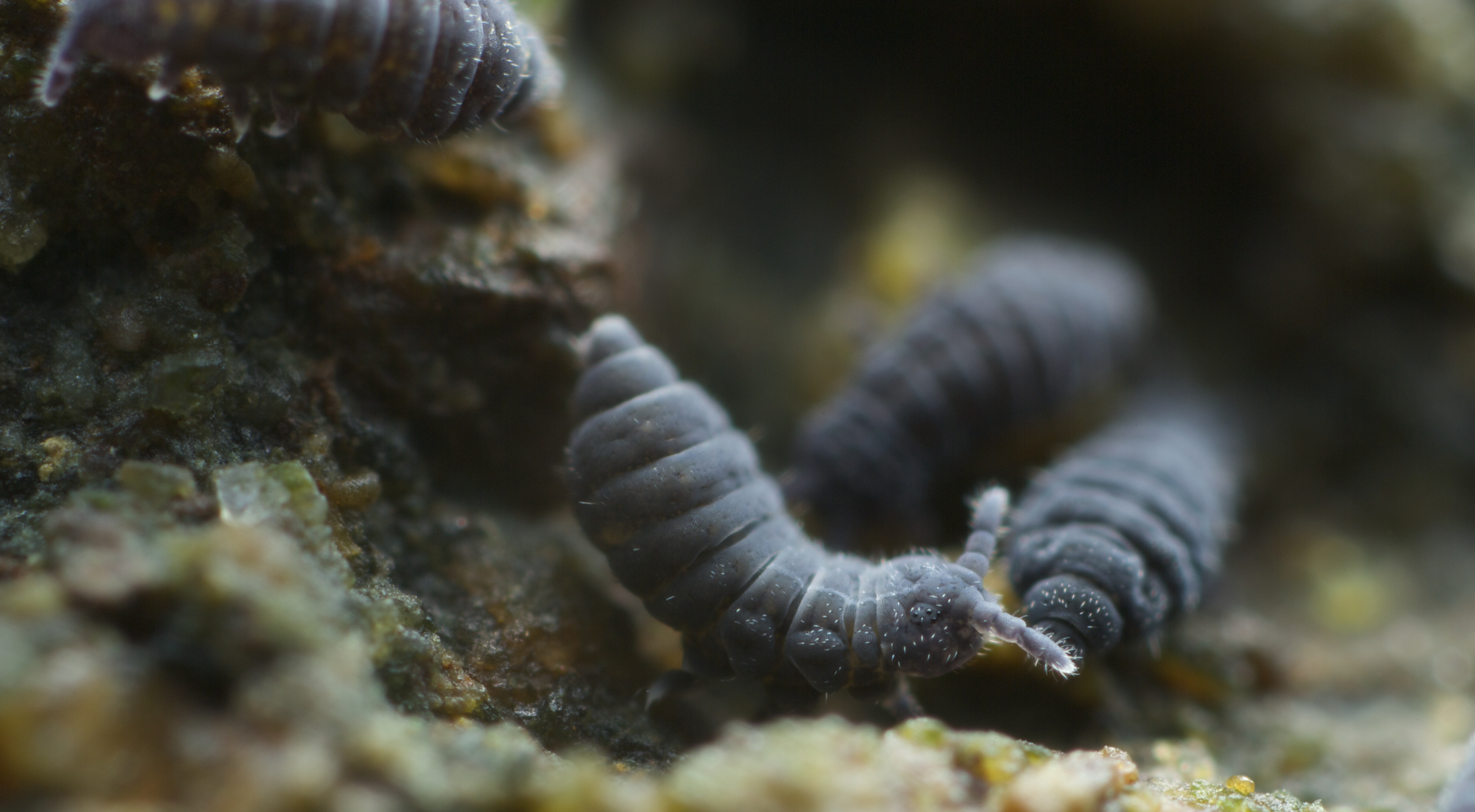 Probably Xenylla littoralis Original description on Flickr: When I was staying in Montagu on the NE coast of Tasmania, these Collembola were very common but interestingly, only just below the high tide mark, as was another species that I'll post up tomorrow. Within a few centimetres above this line, they disappeared and I couldn't find them, even with repeated searching. A lot of springtails seem well adapted to extreme conditions, these ones mainly under rocks, perhaps where air pockets could be trapped when the tide came in. The more I watch these animals, the more I'm impressed by how they can live in conditions unfit for most other things. They grazed on the algae you can see in the main photo, living in communal piles of up to fifty individuals that I saw. The ID comes from P. Greenslade.